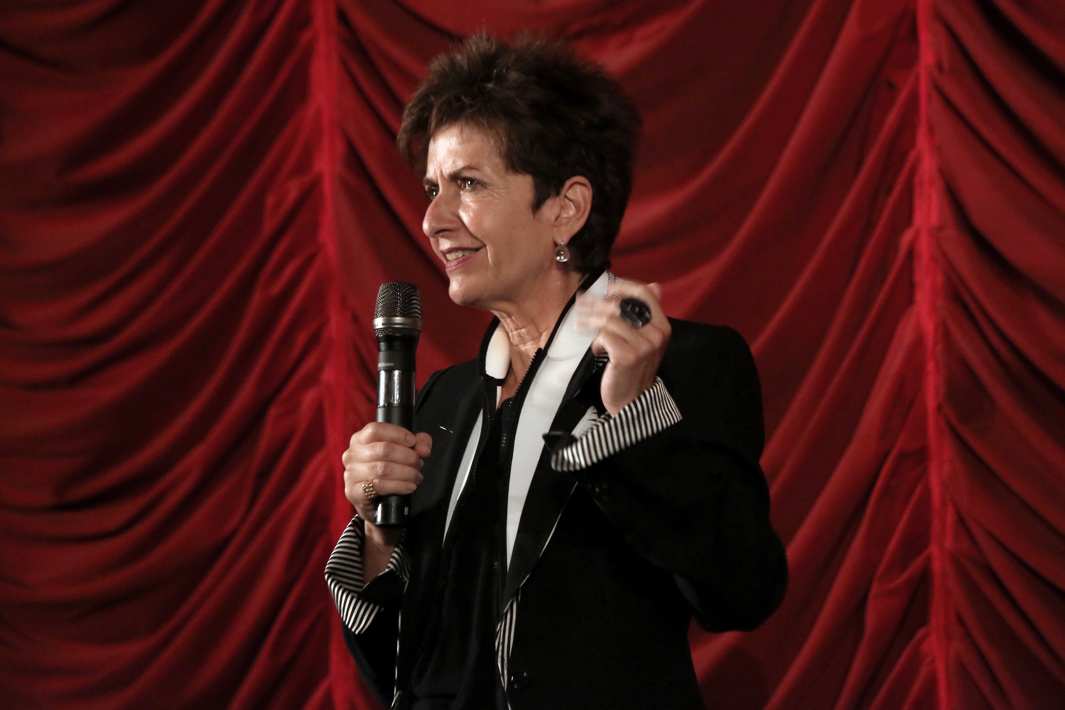 Ruth Beckermann at the premiere of Those Who Go Those Who Stay during Vienna International Film Festival 2013 (Gartenbaukino, Vienna, Austria).